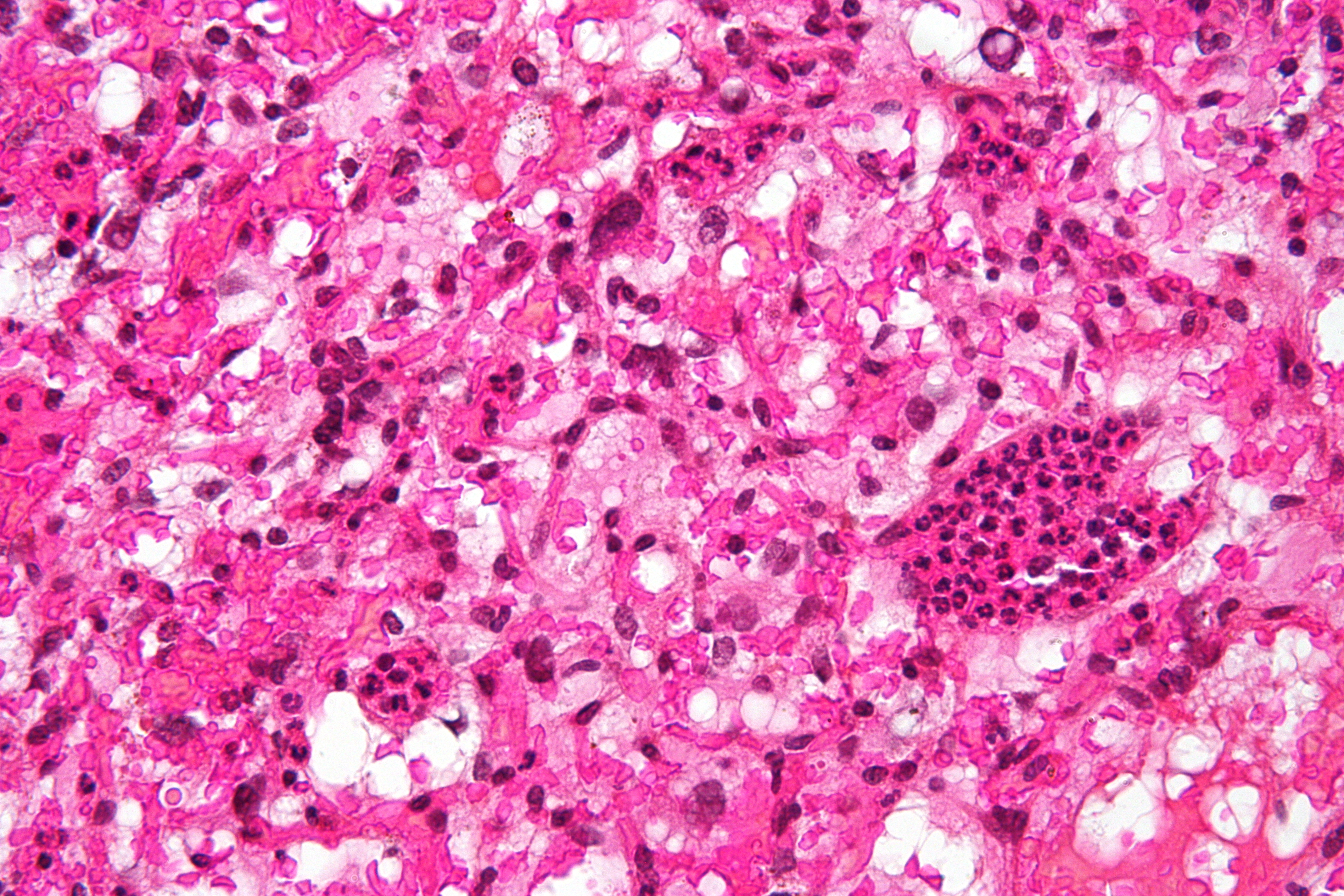 High magnification micrograph of a cerebellar hemangioblastoma. HPS stain. Features: High vascularity - many small vessels. Polygonal-shaped stromal cells with: Hyperchromatic nuclei. Vacuolated cytoplasm. Related images Intermed. mag. Low mag.